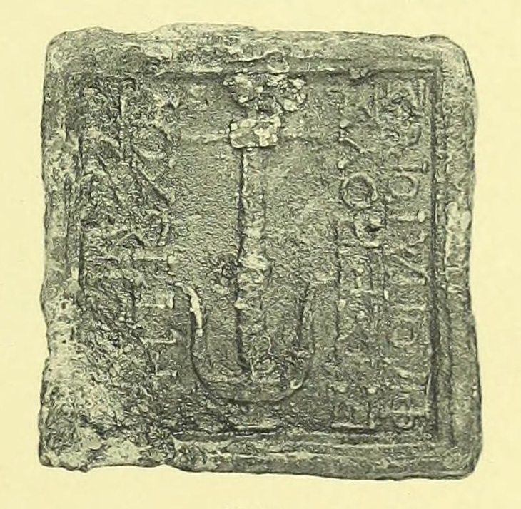 market weight of Antiochus X dated to 93-92 BC